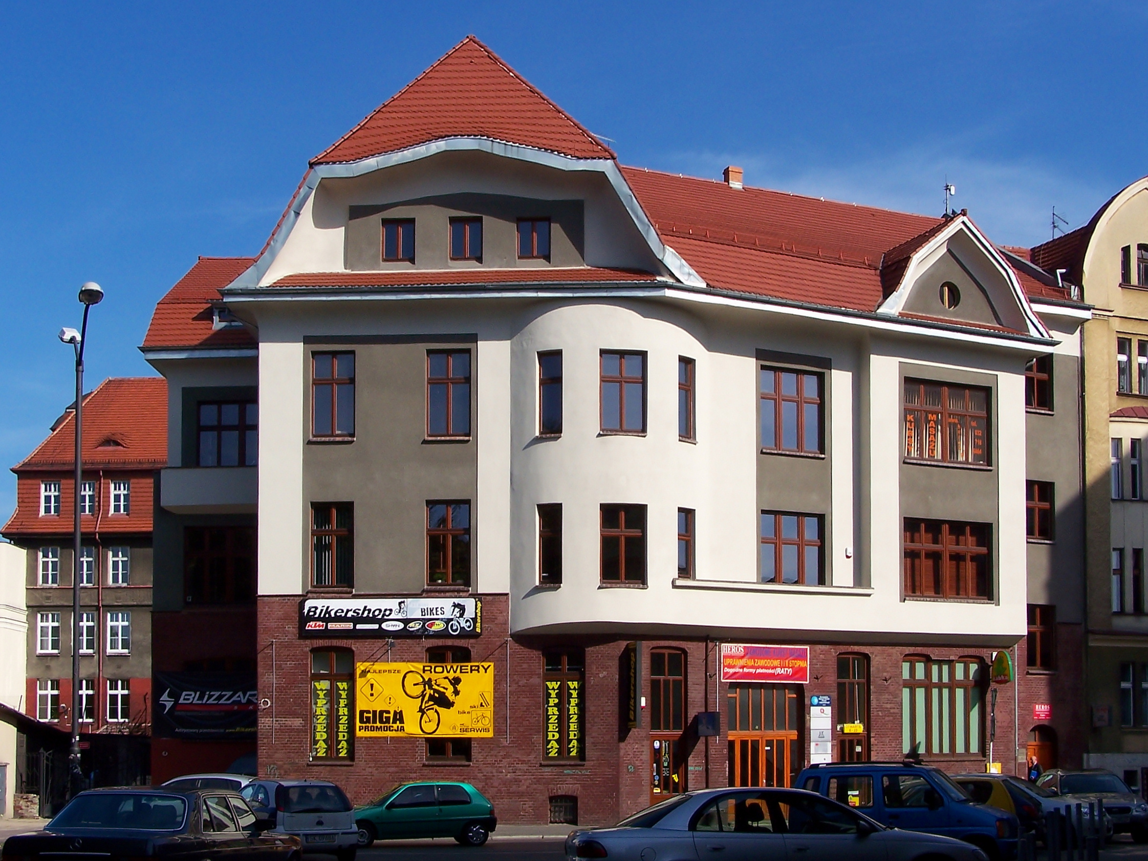 Tenement house near Freedom Square in Katowice (Poland).